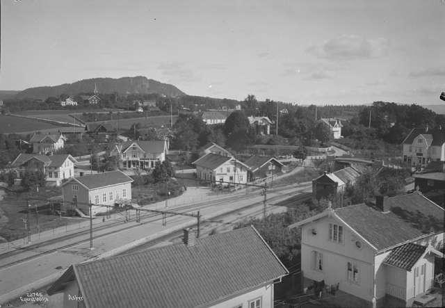 Asker railway station on Drammenbanen, Norway.